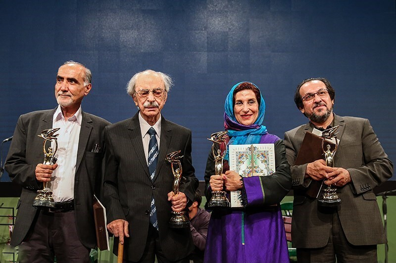 Alireza Rezadad, Fatemeh Motamed-Arya, Seyyed Mohammd Khaddem & Manouchehr Mohammadi